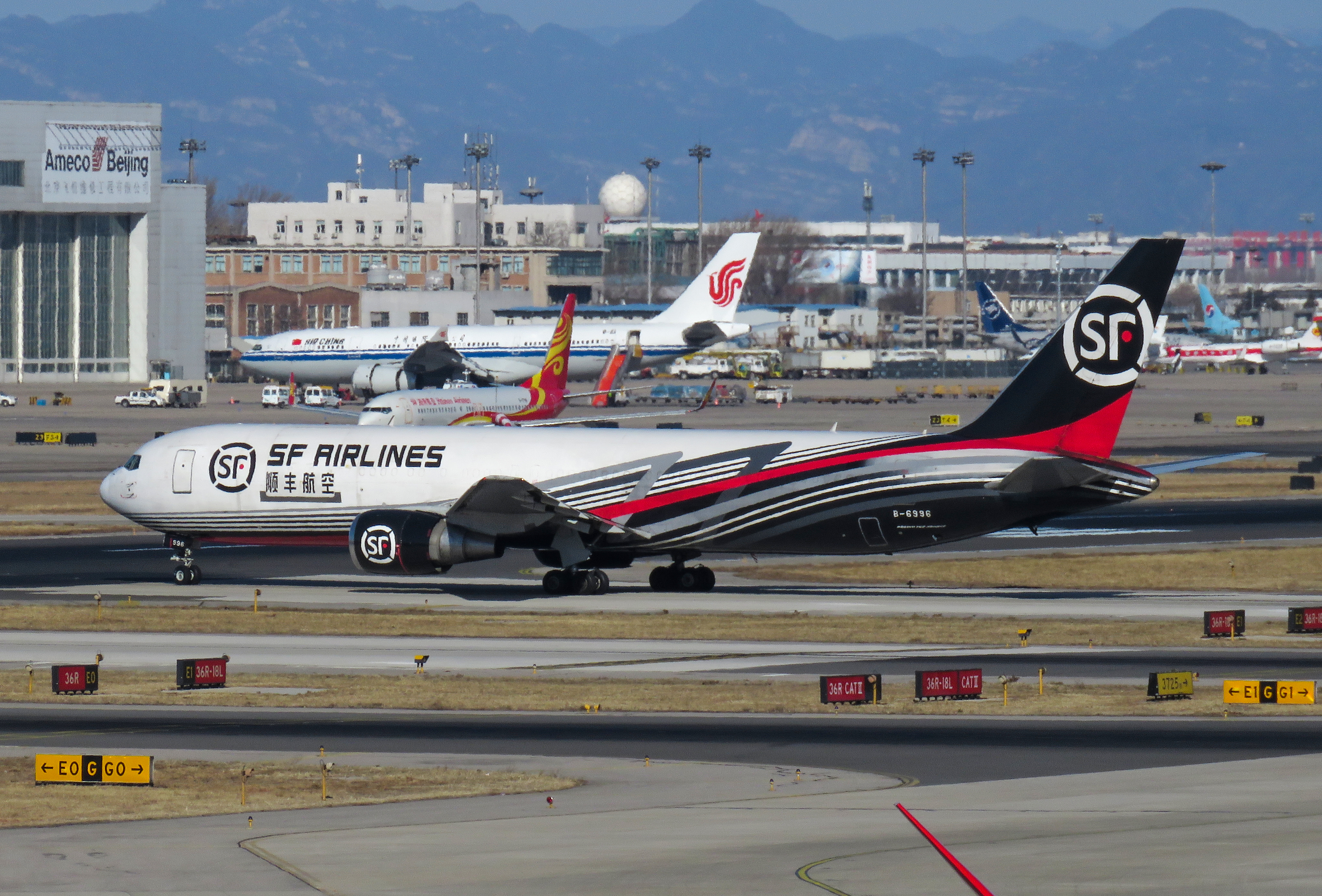 Shunfeng 6876 to Shenzhen. First time to spot a SF Airlines B767.